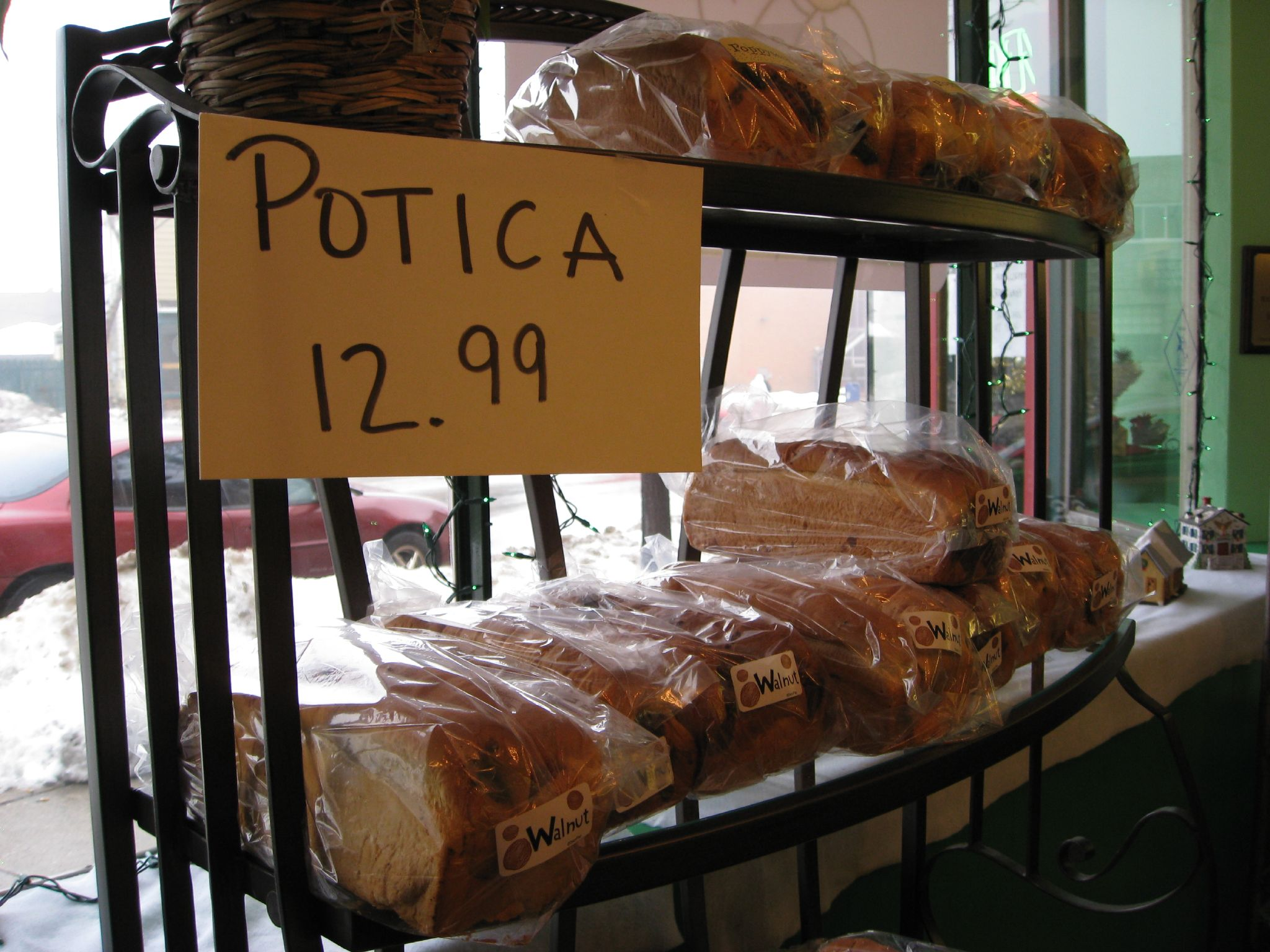 The opened up a few weeks ago on 58th or so and National were the old bakery closed. Potica is a Slovenian/Croatian/Serbian/Slovakian pastry/bead of sorts. This place had varieties of Walnut, Walnut/Raisen. and Poppyseed. I also order ans ate a cream puff from them. Yum!